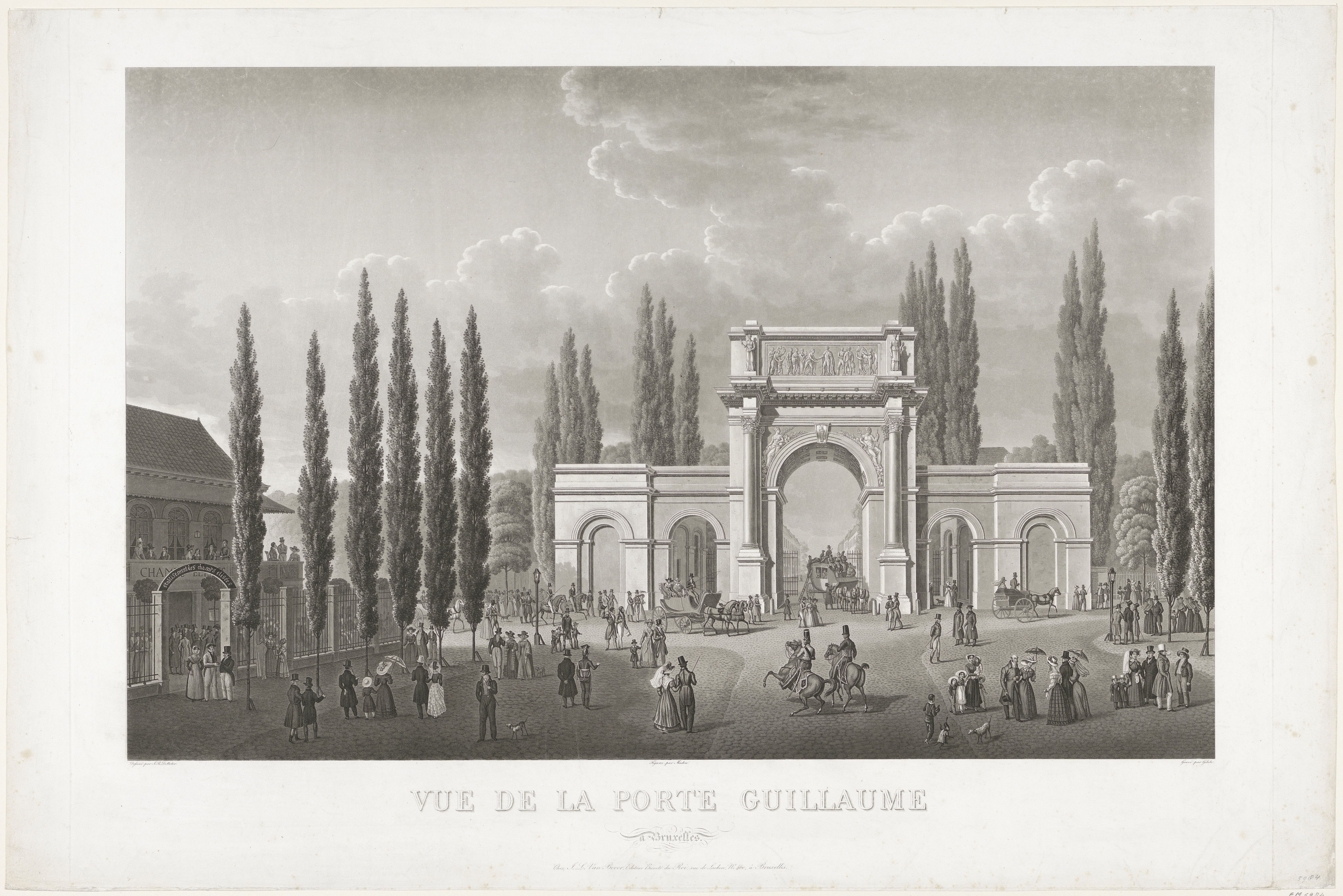 Entry of king William I of the Netherlands in Brussels on 21 september 1815. Aquatint and etching by Johann Nepomuk Gibèle after Jean-Baptiste André De Noter after Jean Baptiste Madou